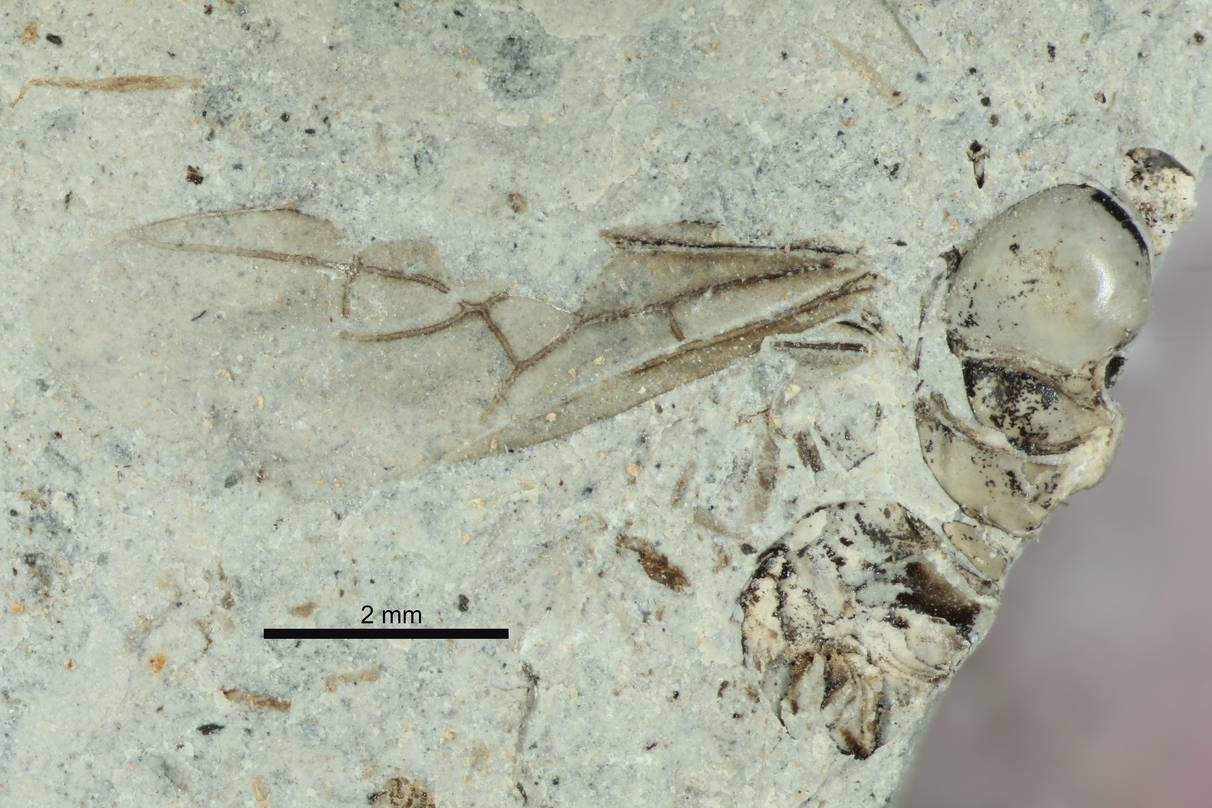 View of the Emplastus britannicus specimen. Natural History Museum, London specimen BMNHP20546